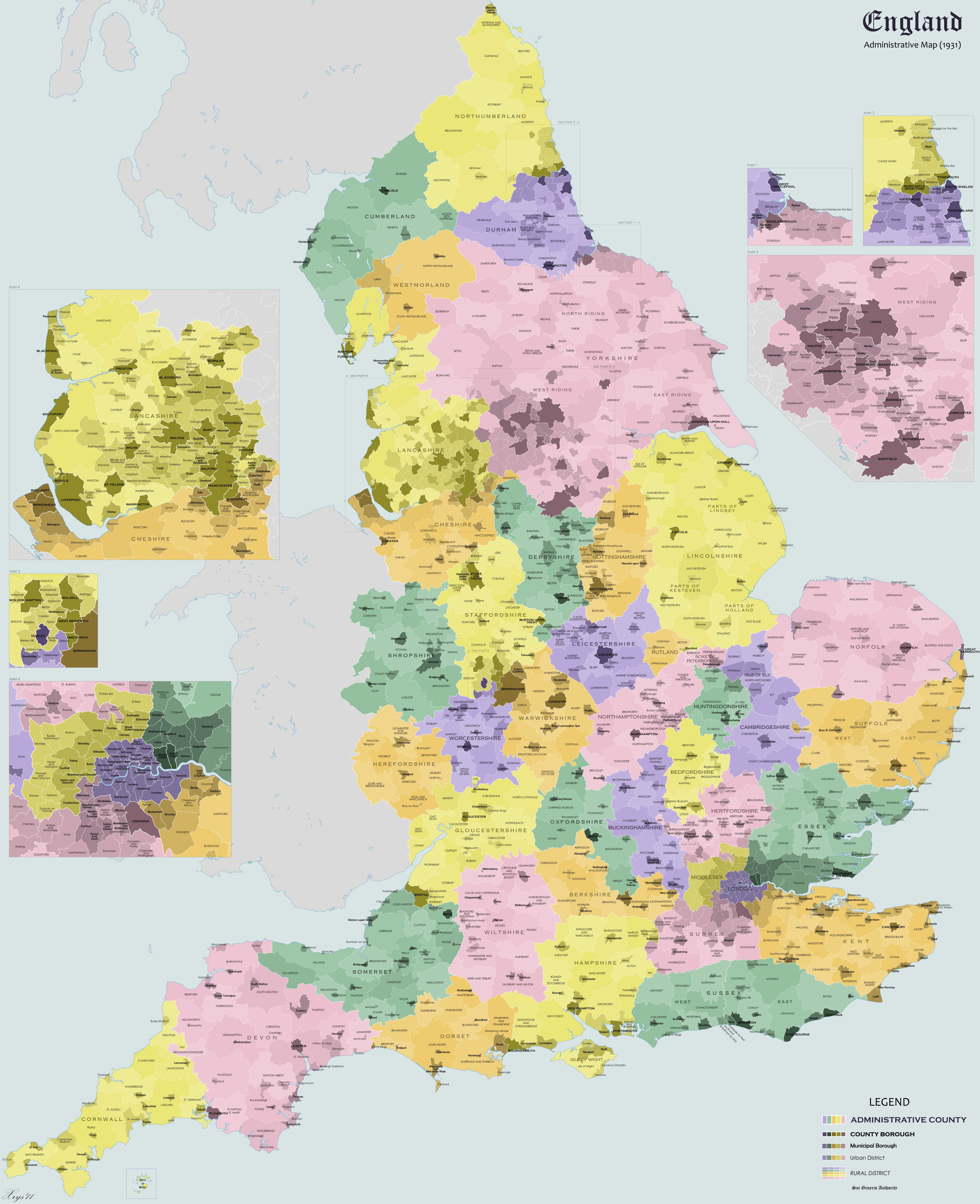 Administrative map of England in 1931. Shows Administrative Counties, County Boroughs, Municipal Boroughs, Urban and Rural Districts.